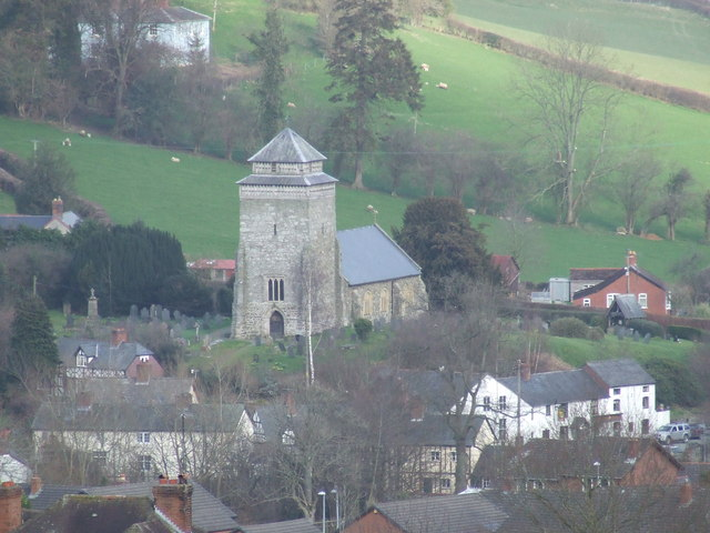 St Beuno's church Bettws Cedewain, near to Bettws Cedewain, Powys, Great Britain. A view over Bettws village from the surrounding hills.